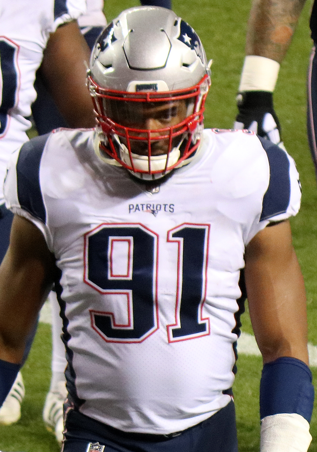 Deatrich Wise Jr., a player on the National Football League.